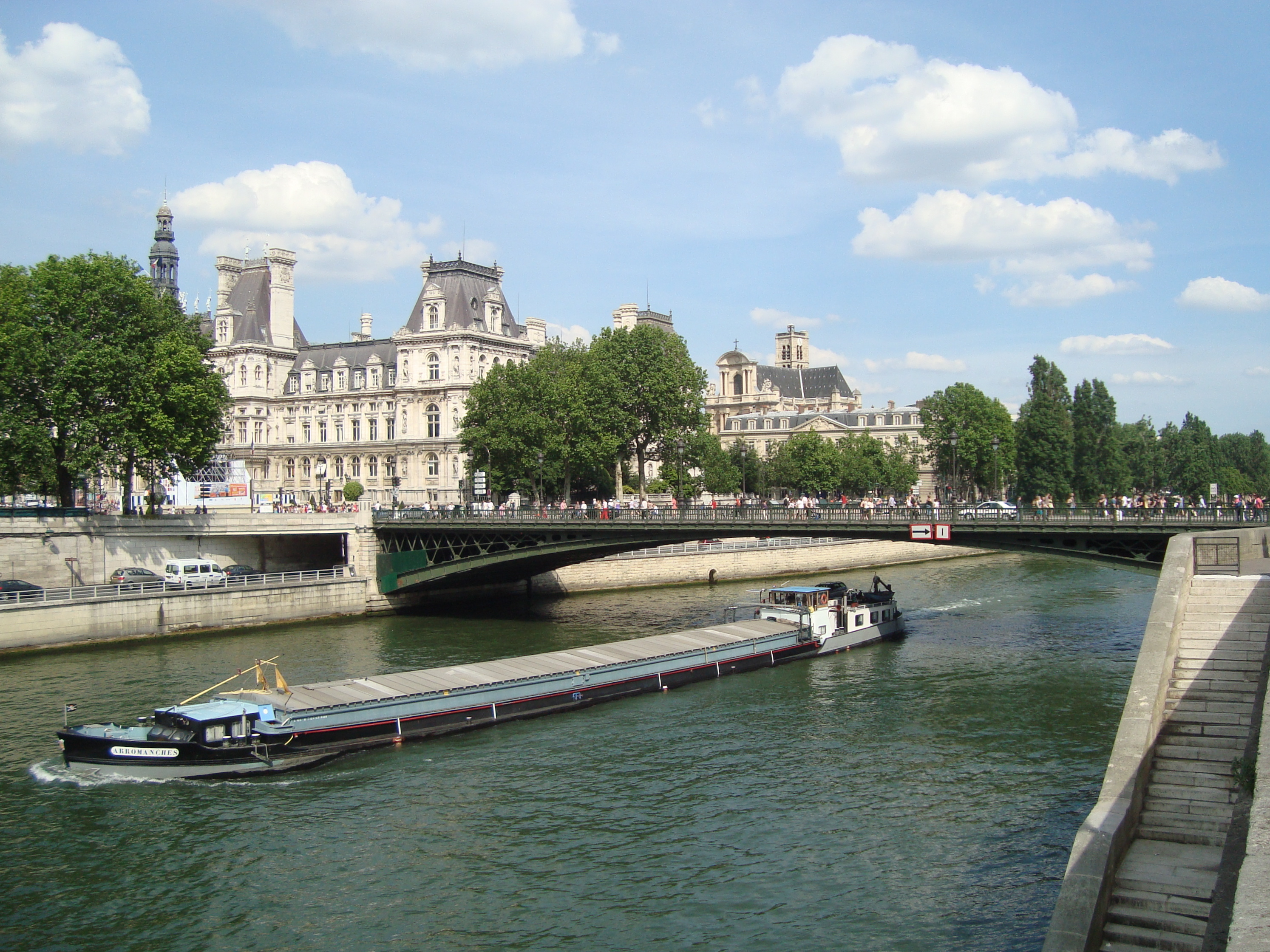 Pont d'Arcole in Paris with a péniche. On the left the Hôtel de Ville.